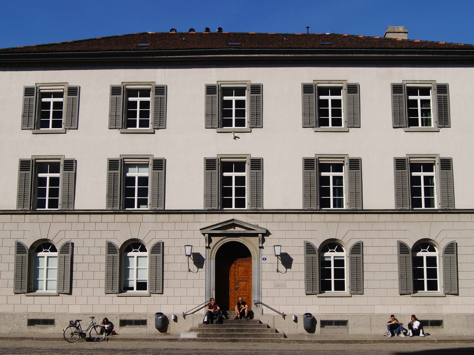 former catholic school in St. Gall, built in1840